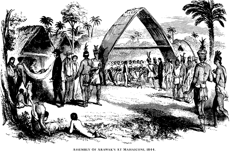 Assembley of Arawak's at Mahaiconi, from Indian Tribes of Guiana W. H. Brett (1844)